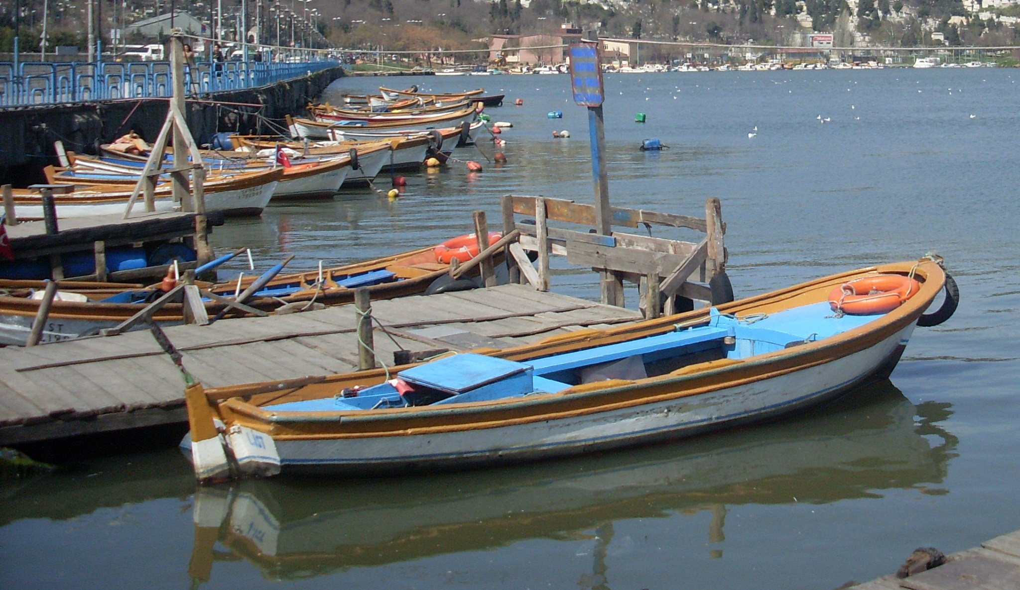 Skiff